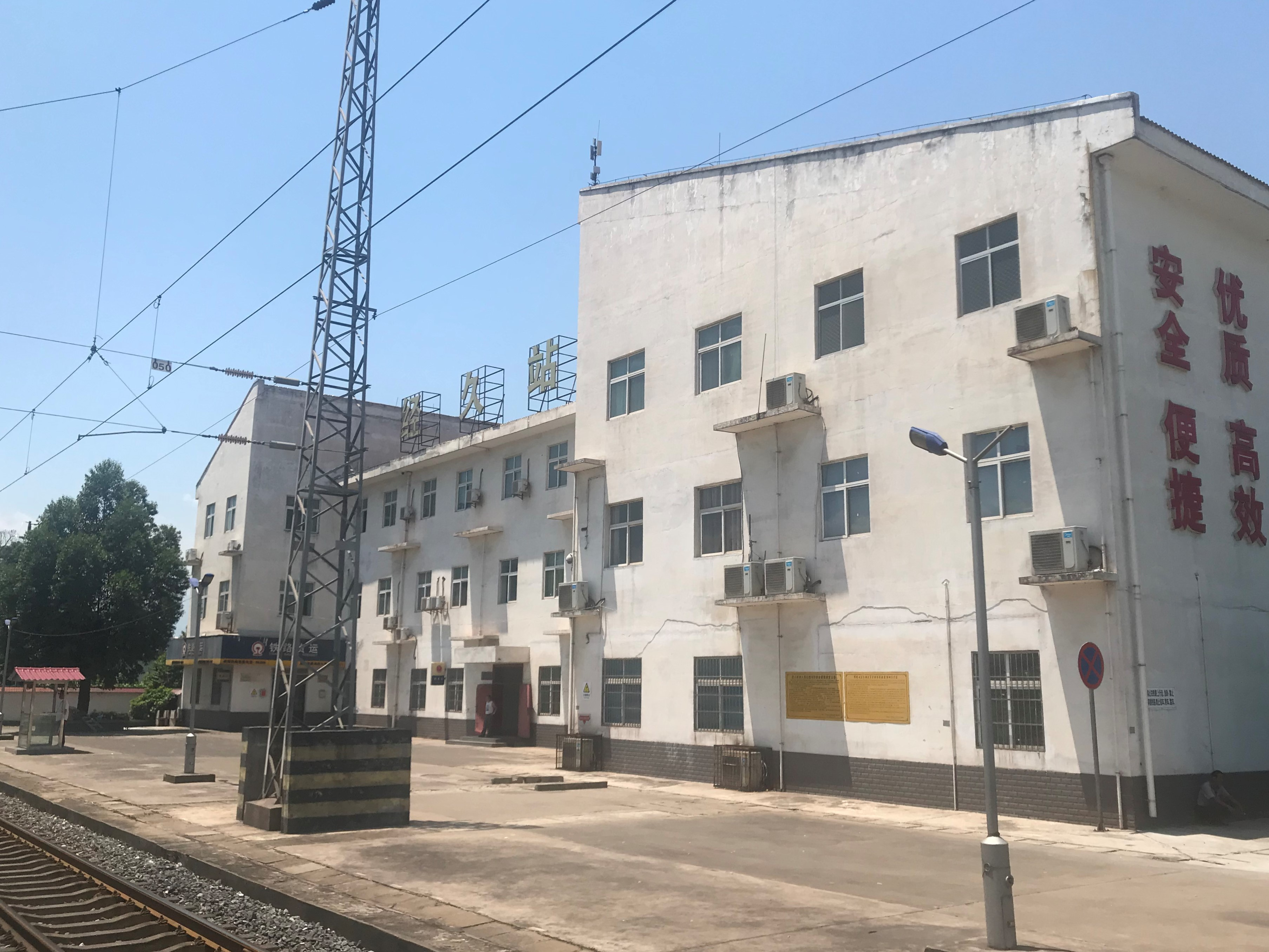 201908 Station Building of Jingjiu (2)